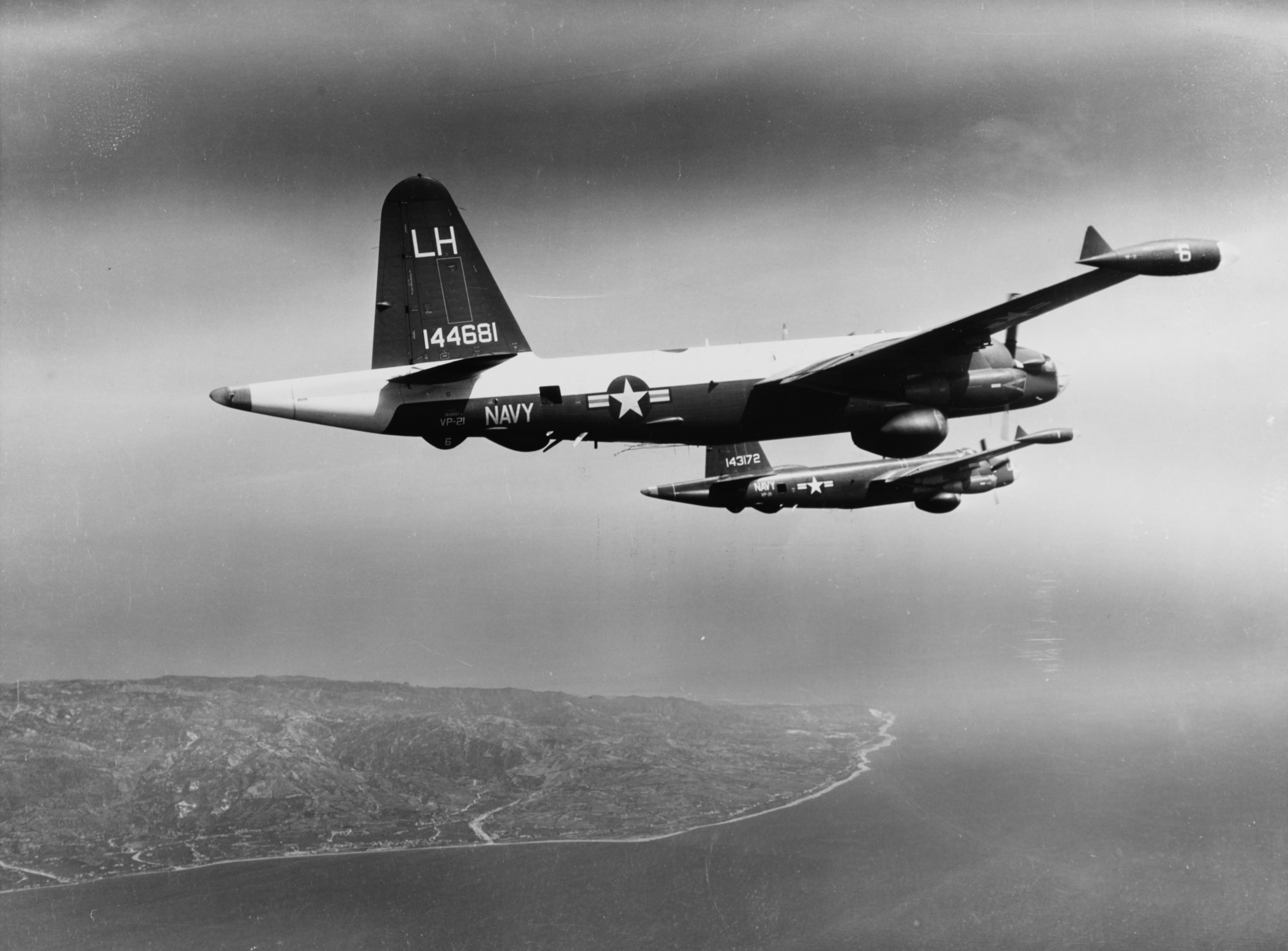 Two U.S. Navy Lockheed SP-2H Neptune (BuNo 144681, 143172) form Patrol Squadron 21 (VP-21) "Black Jacks" in flight over U.S. Naval station Argentia, Newfoundland, in August 1963.